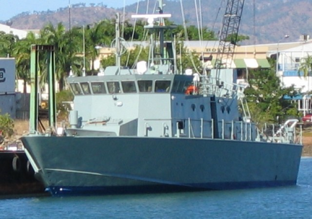 Vanuatu police boat Tukoro berthed in Townsville for maintenance. It is a Pacific Forum patrol boat.